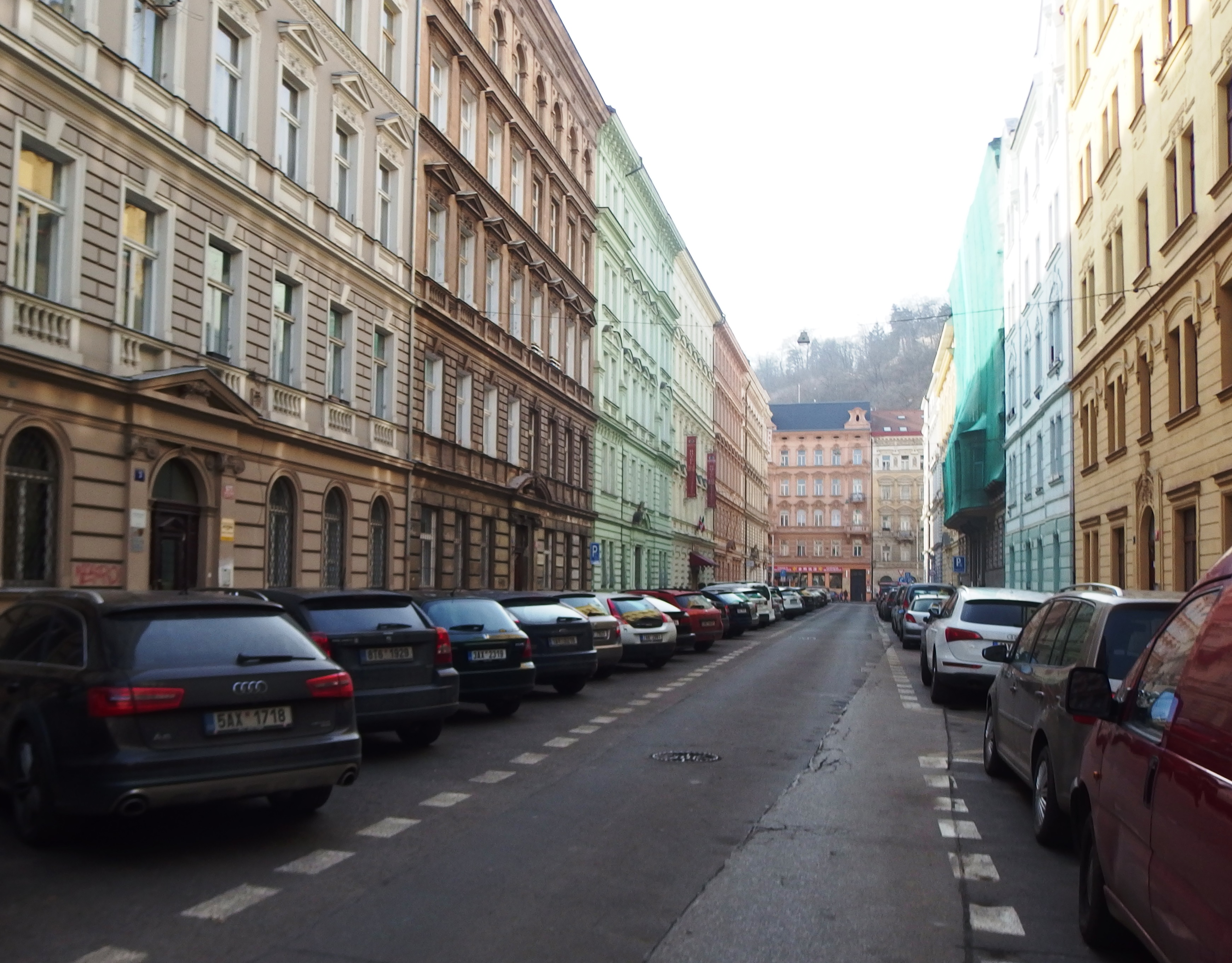 Prague, Czech Republic, Mělnická Street.